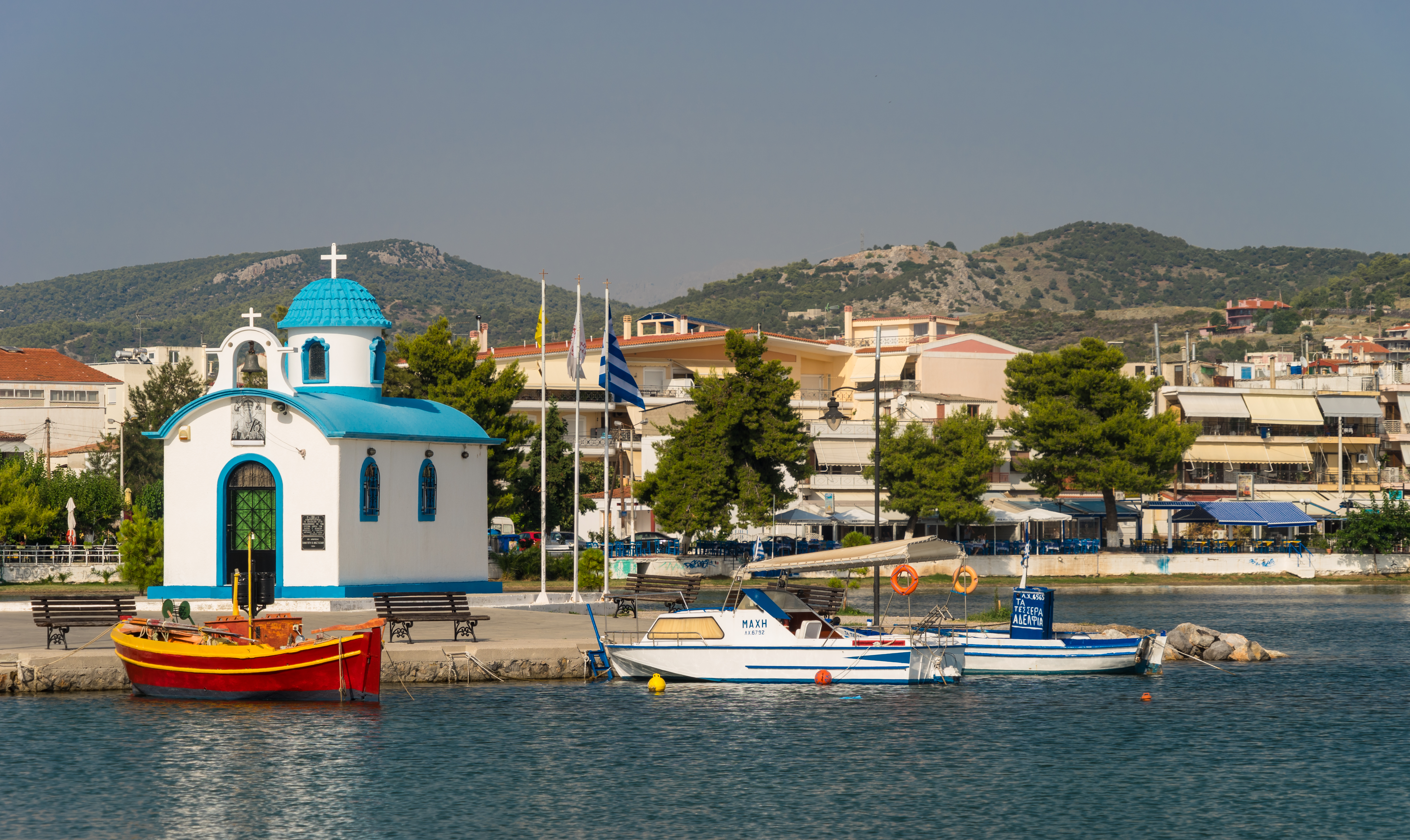 Harbor of Nea Artaki, detail. Euboea island, Greece.